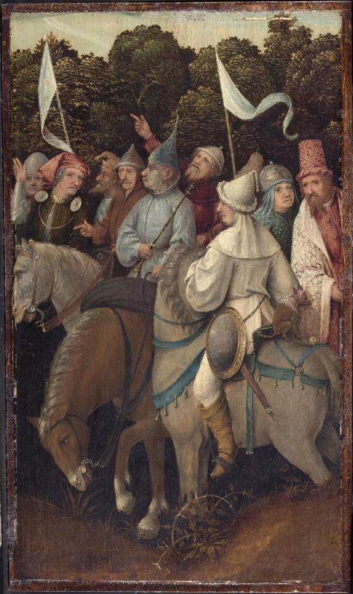 Fragment of the right shutter of a triptych depicting the Adoration of the Magi. See File:Jheronimus Bosch Two Shepherds.jpg for a fragment of the left shutter. See File:Follower of Jheronimus Bosch Adoration of the Magi.jpg for a similar triptych in the Noordbrabants Museum, 's-Hertogenbosch, the Netherlands.